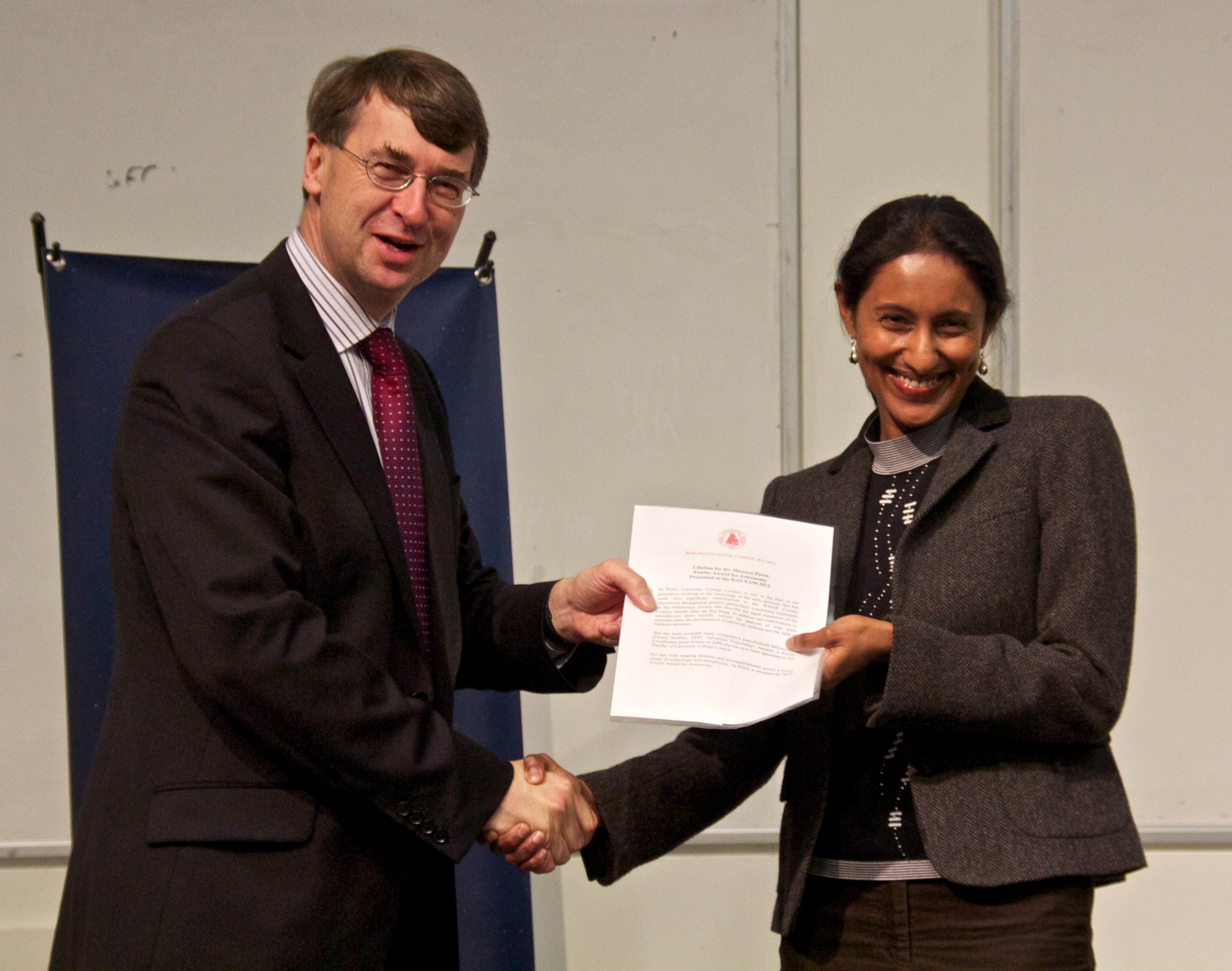 Royal Astronomical Society prizes being awarded at the National Astronomy Meeting 2012, Manchester. Roger Davies on the left, Hiranya Peiris on the right receiving the Fowler Award (A).